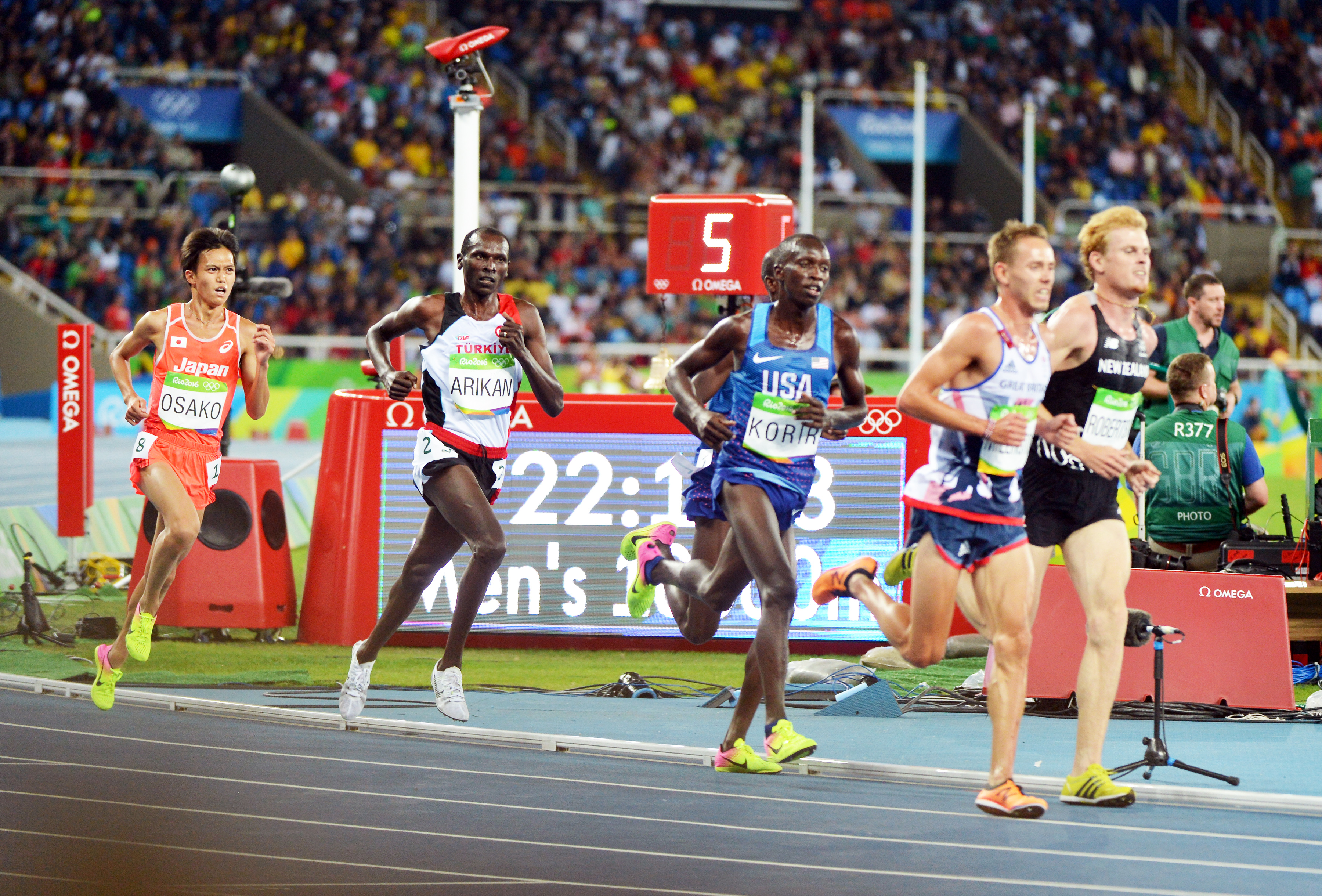 Spcs. Leonard Korir and Shadrack Kipchichir finish 14th and 19th respectively in the men's 3,000-meter run Aug. 13 at the 2016 Rio Olympic Games in Rio de Janeiro. Both Soldiers in the U.S. Army World Class Athlete Program turned in their season-best performaces, with Korir finishing in 27 minutes, 58.65 seconds and Kipchirchir clocked at 27:58.32. Mohamed Farah of Great Britain successfully defended his Olympic crown by winning the race in 27:05.17. Paul Kipnetech Tanui of Kenya took the silver in 27:05.64, and Tamirat Tola of Ethiopia claimed the bronze in 27:06.27.